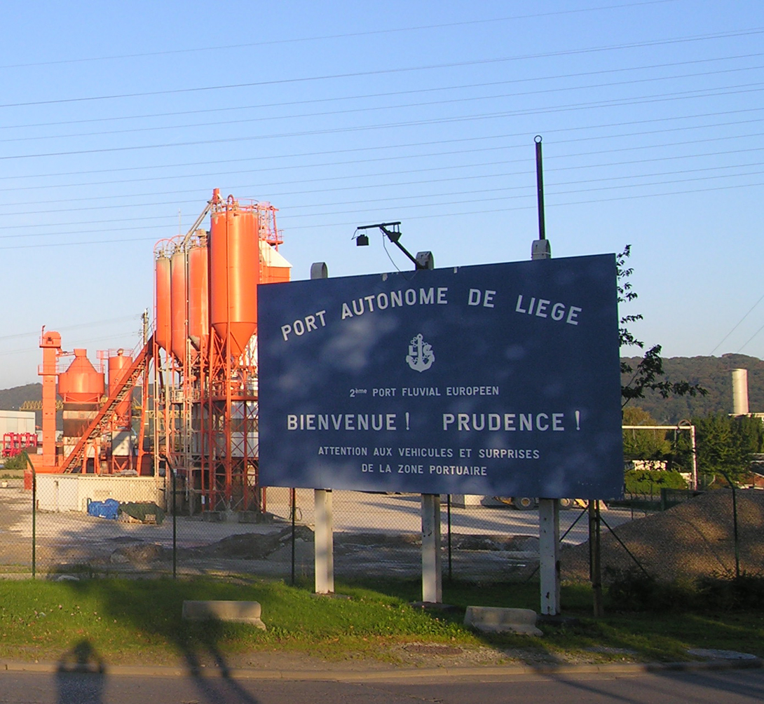 Liège (Belgium): Welcome sign at the entrance of the Port of Liège